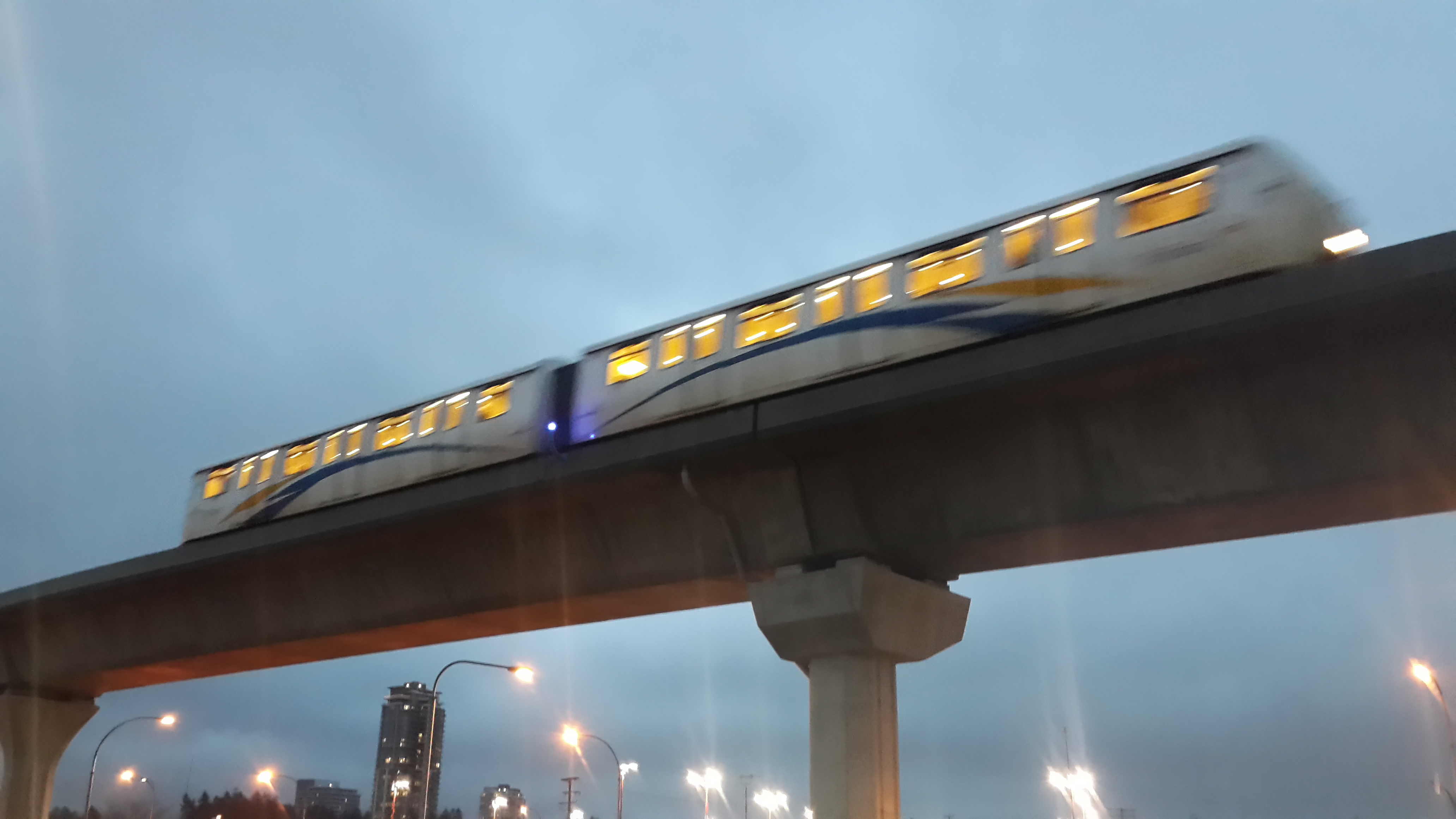 A SkyTrain train was running on Evergreen Line